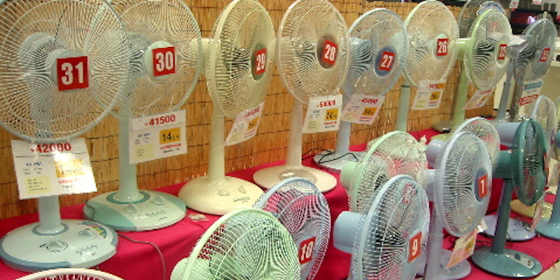 Content Korean Fan Market